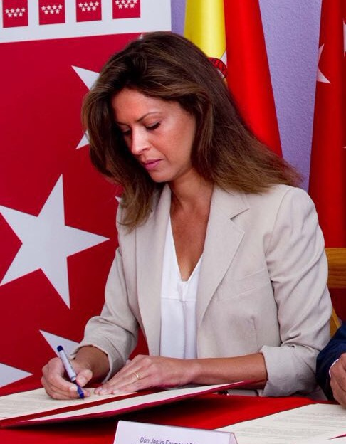 Elena Cue firmando Convenio entre la fundación que preside y la Comunidad de Madrid para la atención a mujeres extranjeras en riesgo de exclusión social